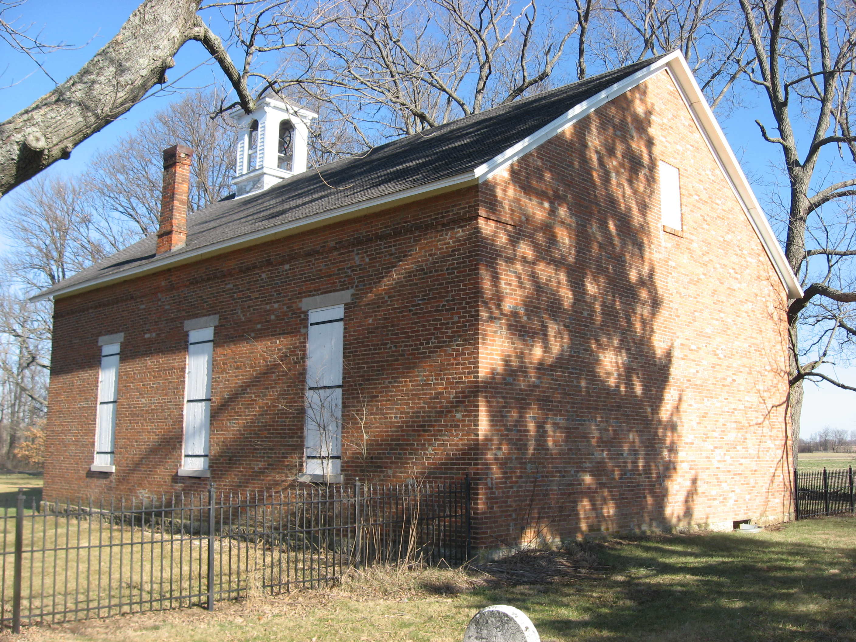 Front of the former Mount Zion Methodist Episcopal Church, located at 1701 W. Eaton-Wheeling Pike west of Eaton in Union Township, Delaware County, Indiana, United States. Built in 1867, it is listed on the National Register of Historic Places.